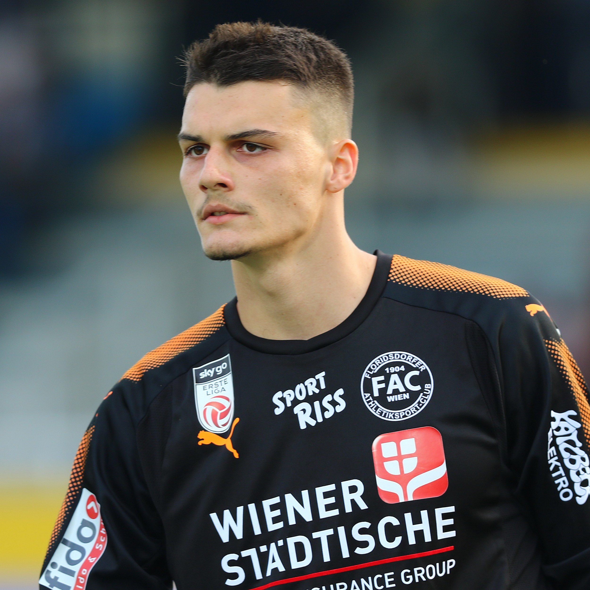 Football-championship Erste Liga 2017–18 - SC Wiener Neustadt (white shirts) vs. Floridsdorfer AC (blue shirts) 1-0. – The photo shows the goalkeeper of Favoritner AC Daniel-Edward Daniliuc.